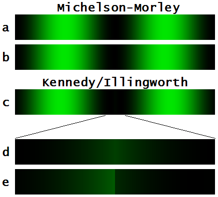 author: User:Stigmatella aurantiaca